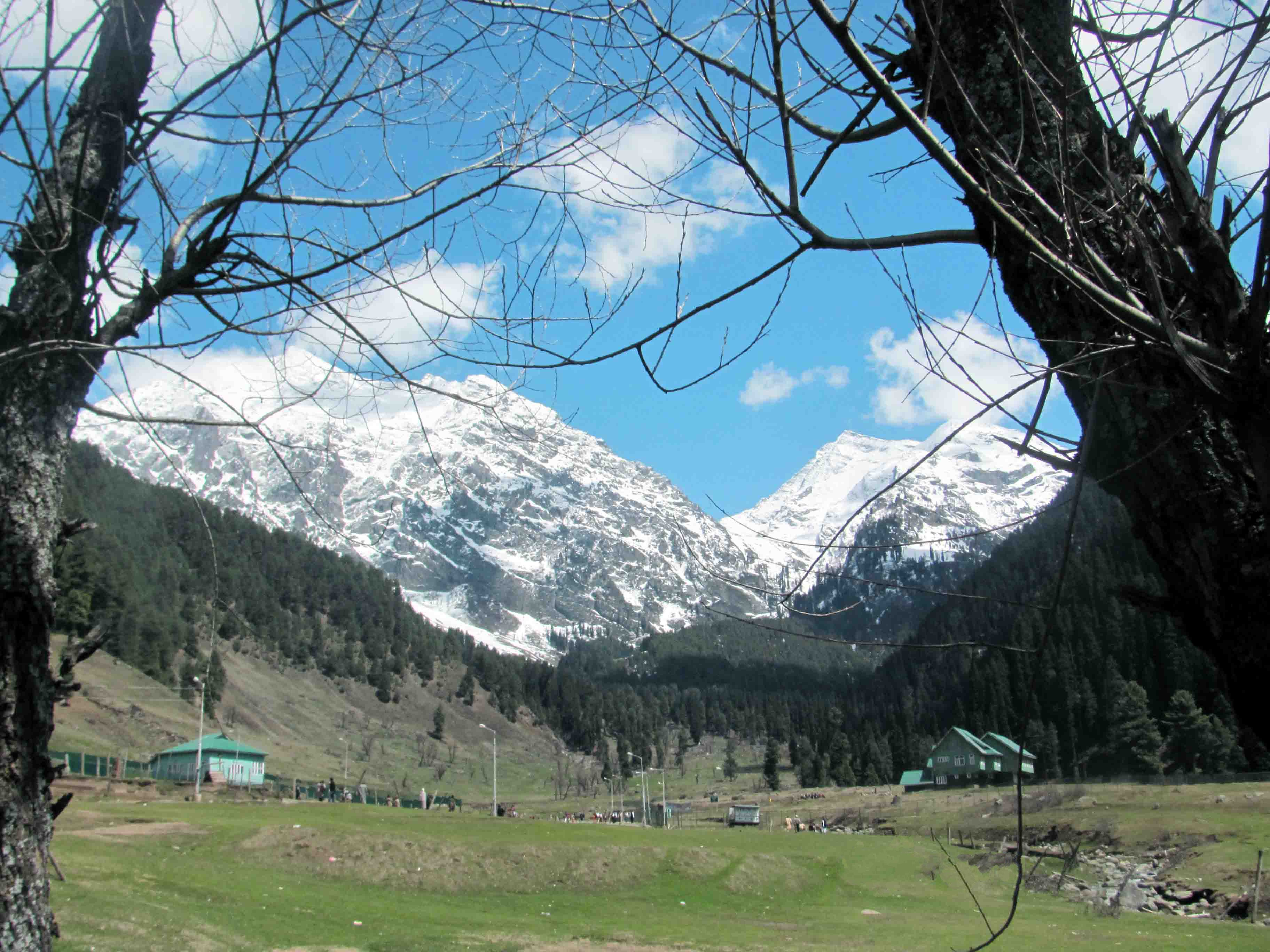 SPRING VIEW AT ARU VALLEY